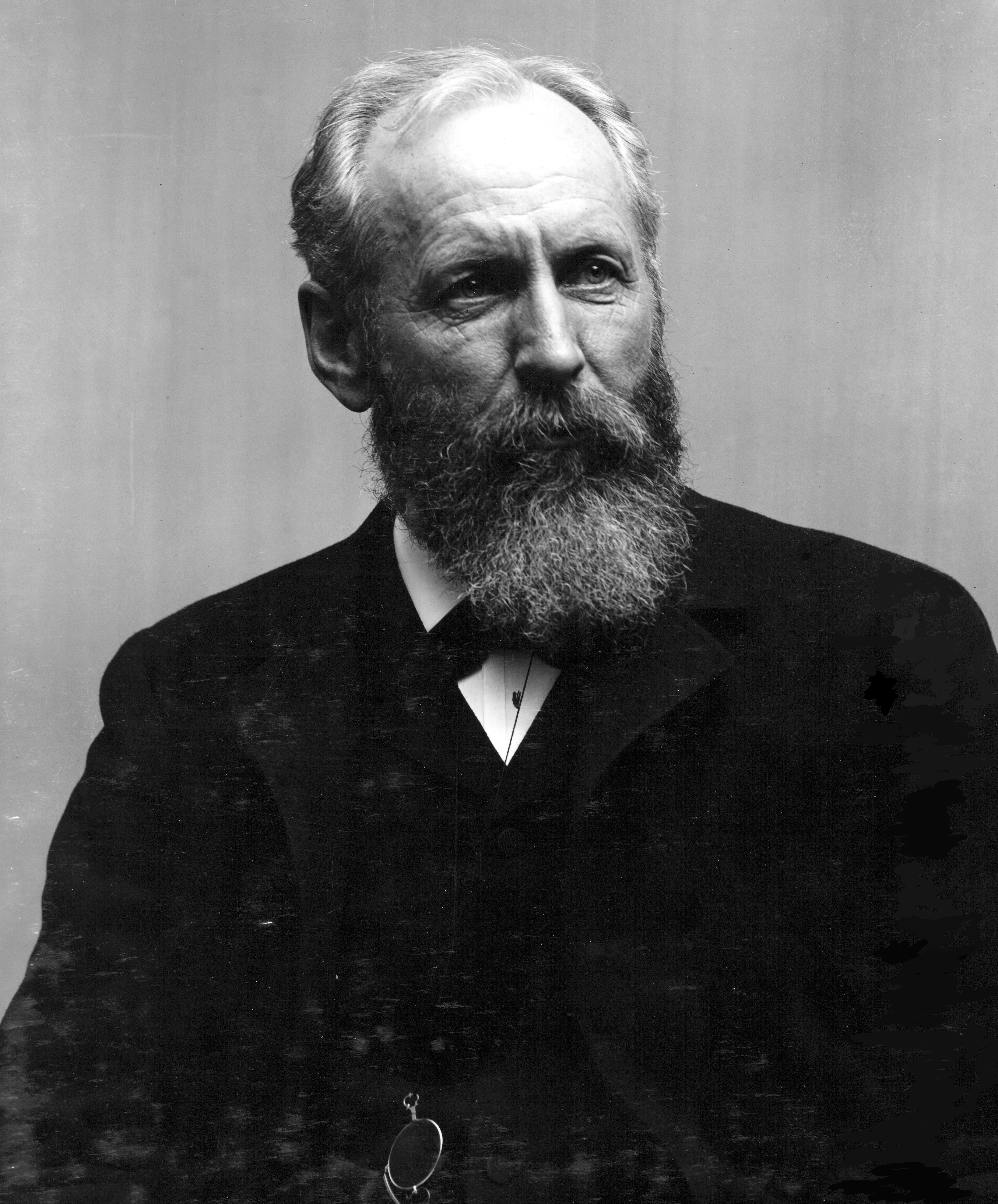 The image represents Grove Karl Gilbert, "the father of geomorphology".